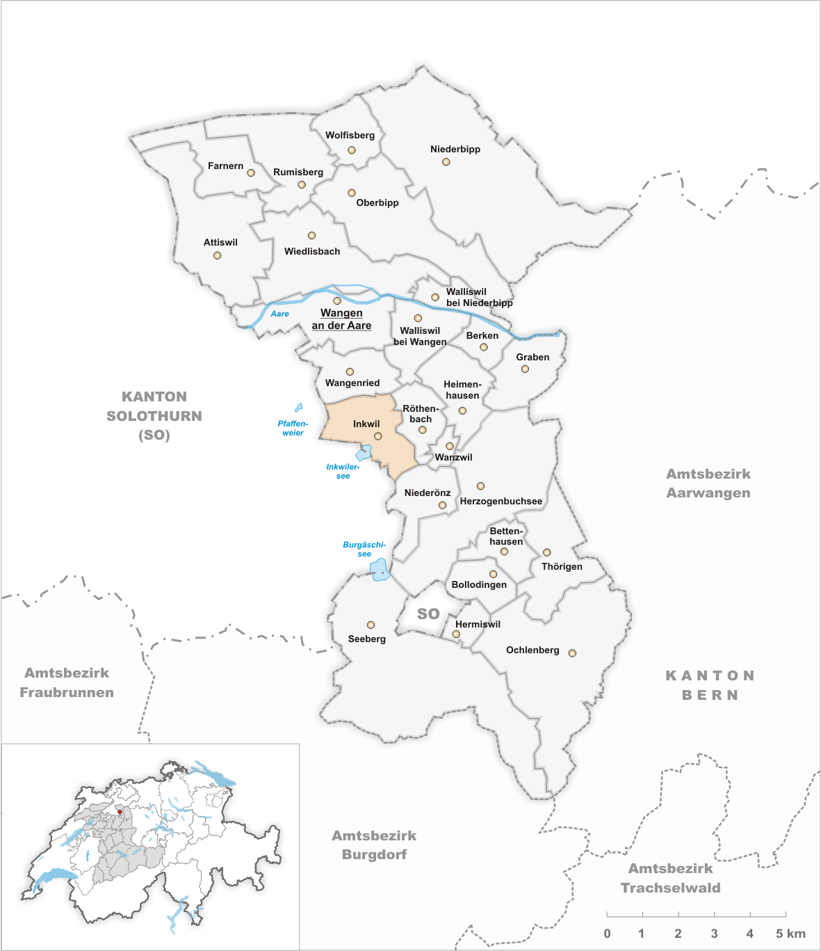 Municipality Inkwil